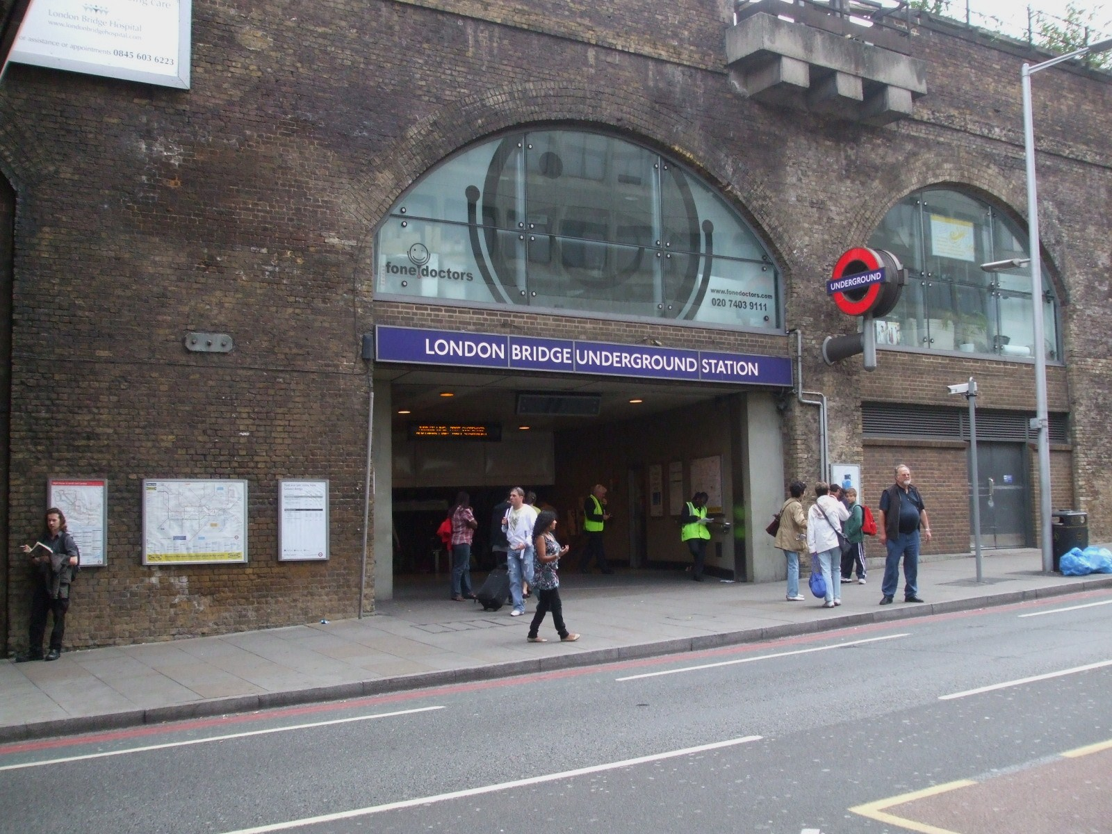 Entrance to London Bridge tube station on Tooley Street